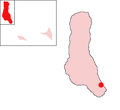 Foumbouni, Grande Comore, Comoros Location Map; created with the GIMP. Made by User:Acntx.